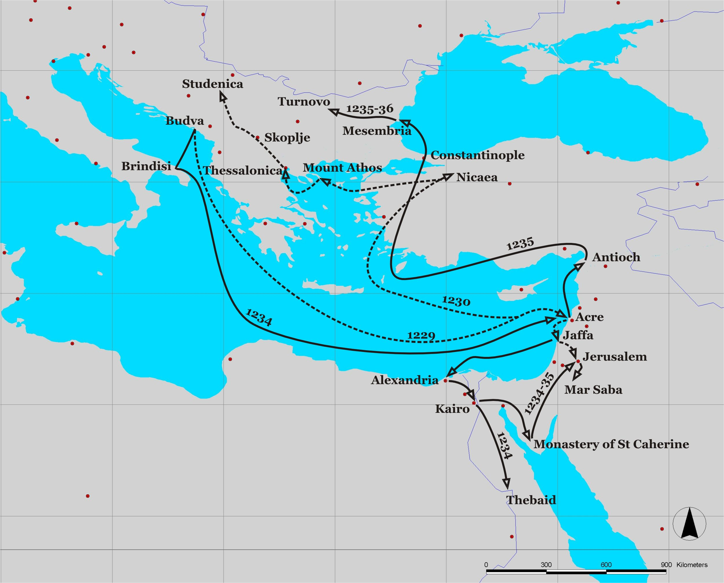 Sava's pilgrimage to Palestine, Egypt and Byzance1229-1936